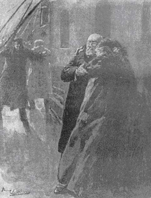 drawing by Paul Thiriat - published in the French daily Excelsior of April 20, 1912 - representing the last moments of the couple Ida & Isidor Straus, during the sinking of the Titanic.